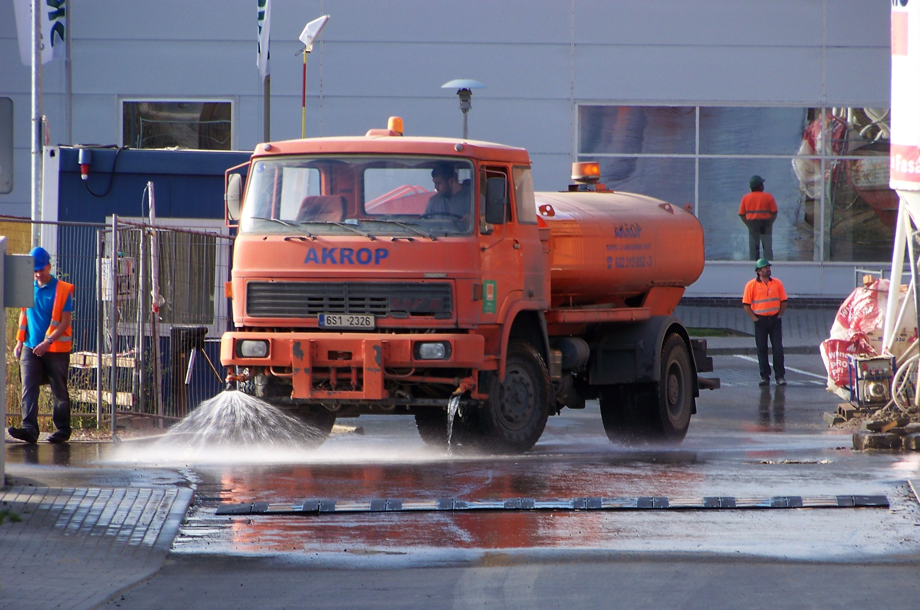 Prague-Jinonice, the Czech Republic. Botanica Vidoule, Chmelařská, street sprinkler truck of AKROP.